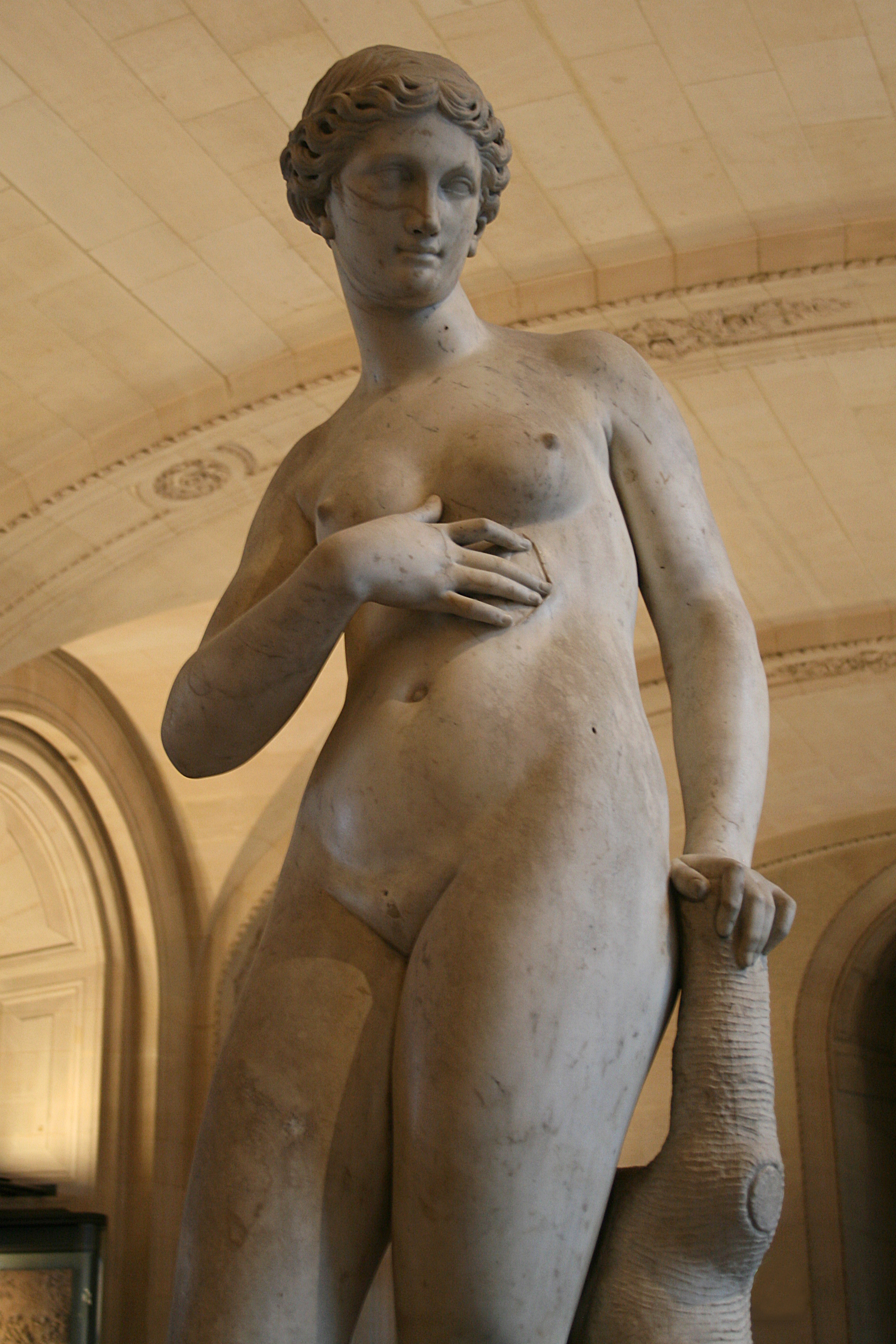 l'Amicizia, marble statue (H. 6 ft. 3.6 in.), work of the italian mannerist sculptor Cristoforo Stati, also known as Cristofano Da Bracciano (1556-1619). From the former collection of the Count of Orsay, it is currently kept at the Louvre in Paris and was photographed there on December 09, 2011